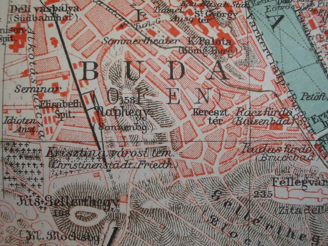 Citymap of Naphegy and Tabán in 1905